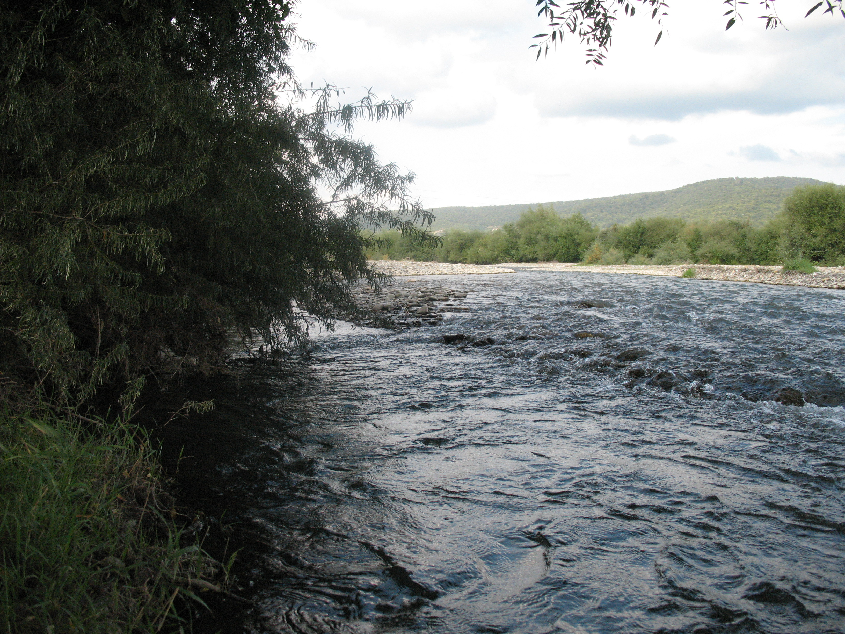 Floodplain of river Iori